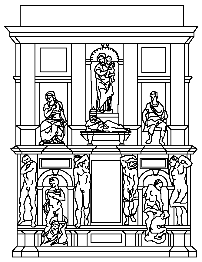 Reconstruction of the project of Michelangelo for the Julius II Tomb dated 1532 (5th project). Inspired to reconstruction of F. Russoli, 1952